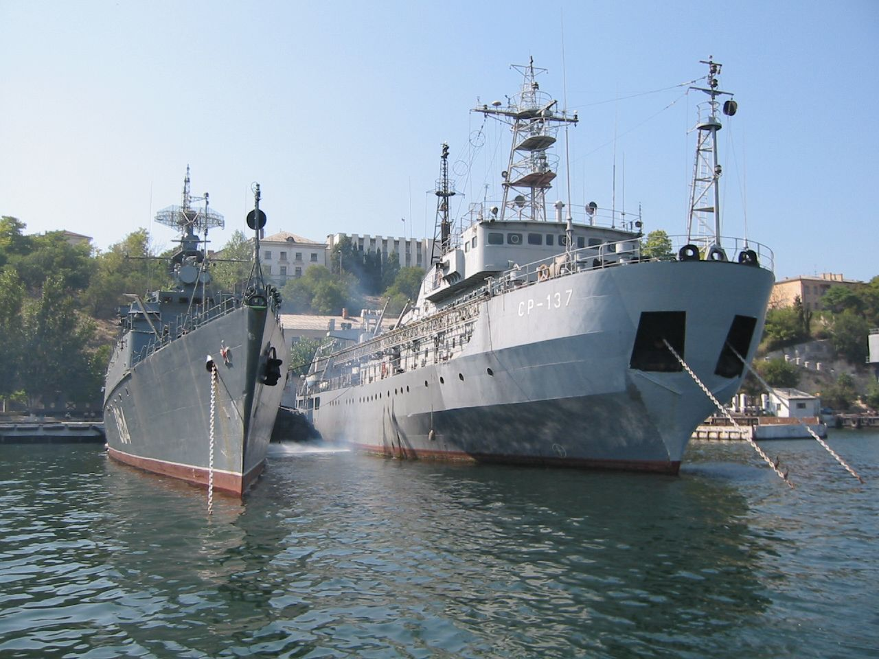 Russian small ASW ships Muromets (064) and degaussing ship SR-137 (СР-137) in Sevastopol.